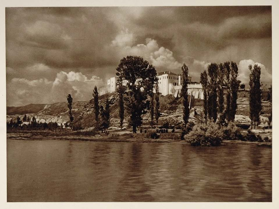 Skopje, Macedonia